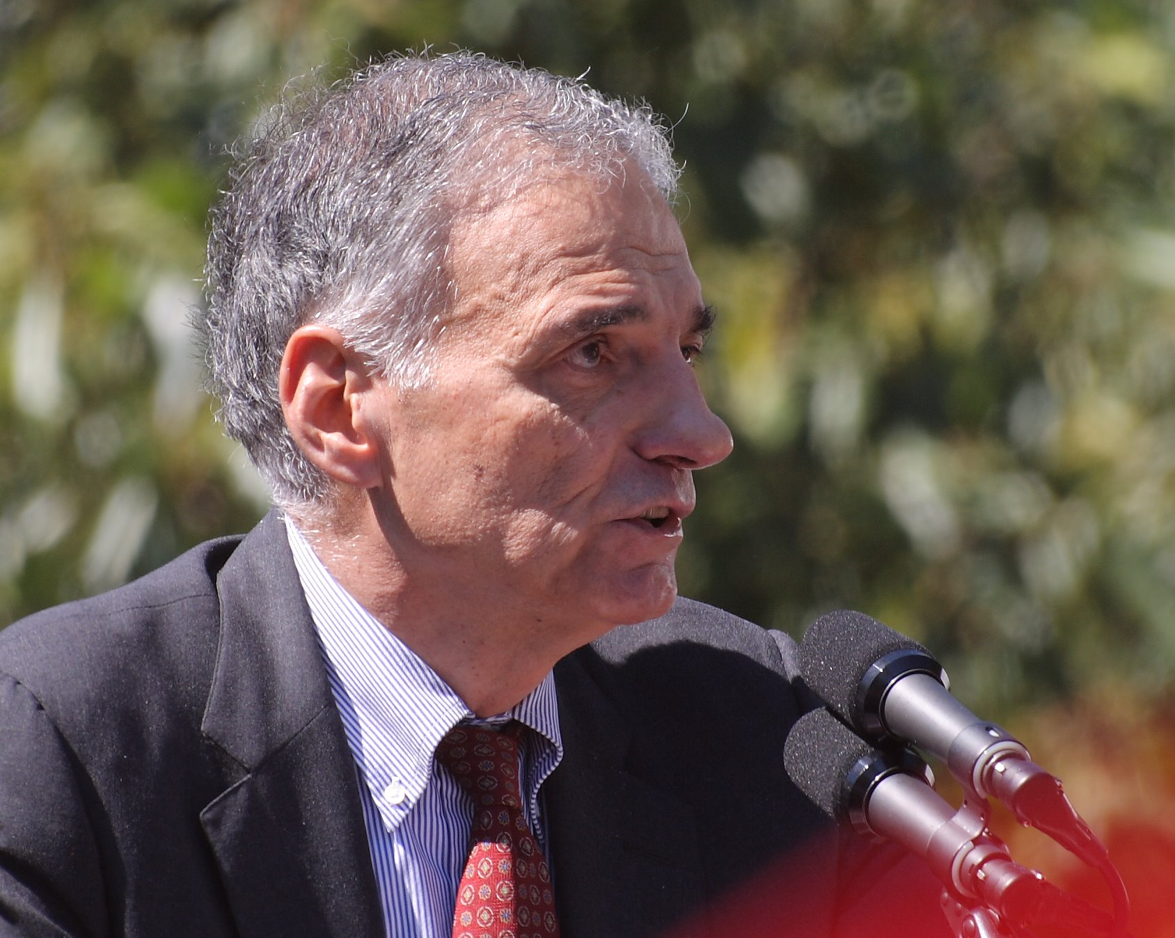 Ralph Nader speaking in front of the White House at the September 15, 2007 protest against the Iraq War. The full speech (ca. 10 minutes) was broadcasted on C-SPAN on September 16, 2007.